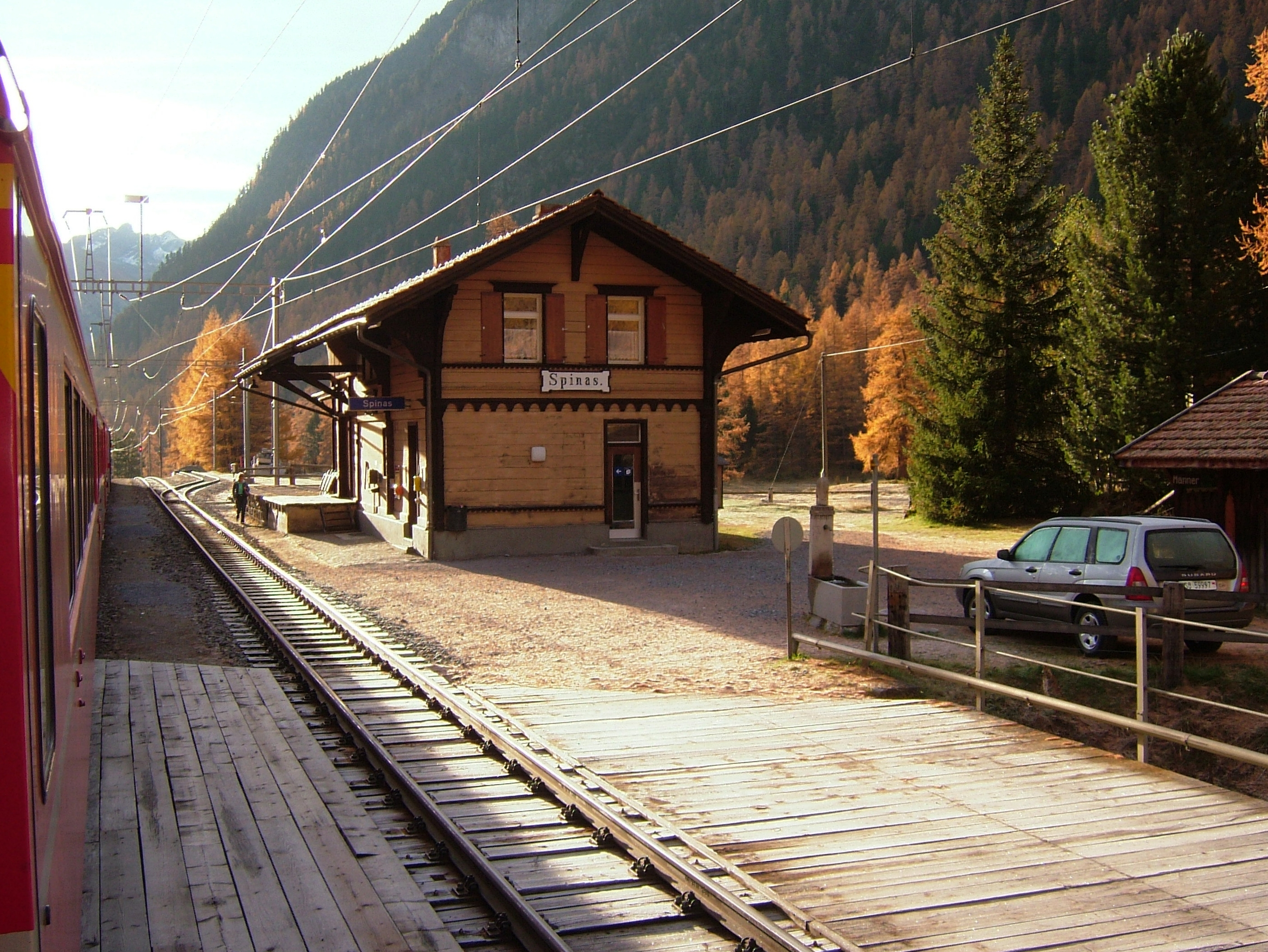 Albula RailwaySouthbound train after leaving Albula Tunnel at Spinas